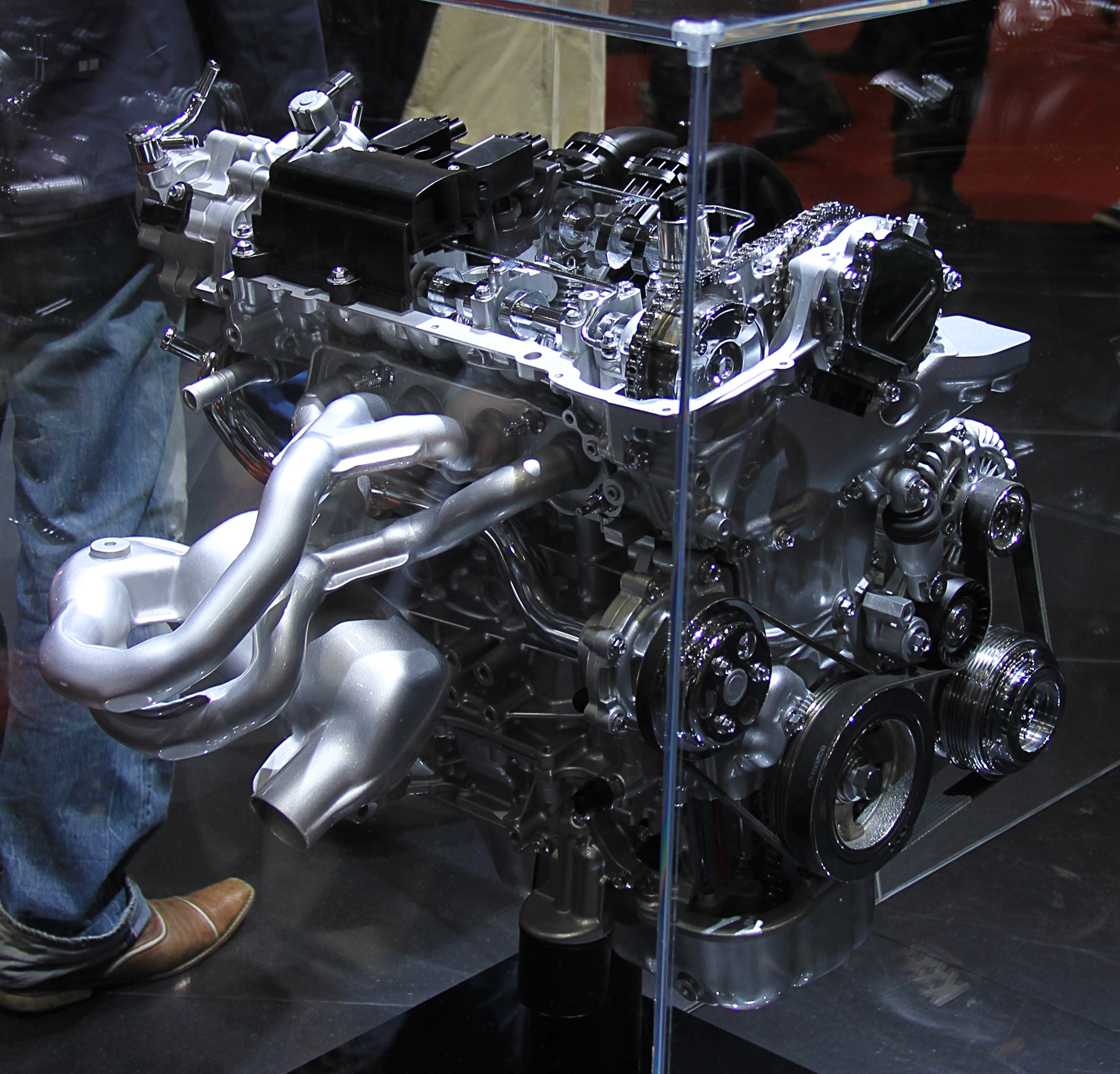 Mazda SKYACTIV-G 1.5